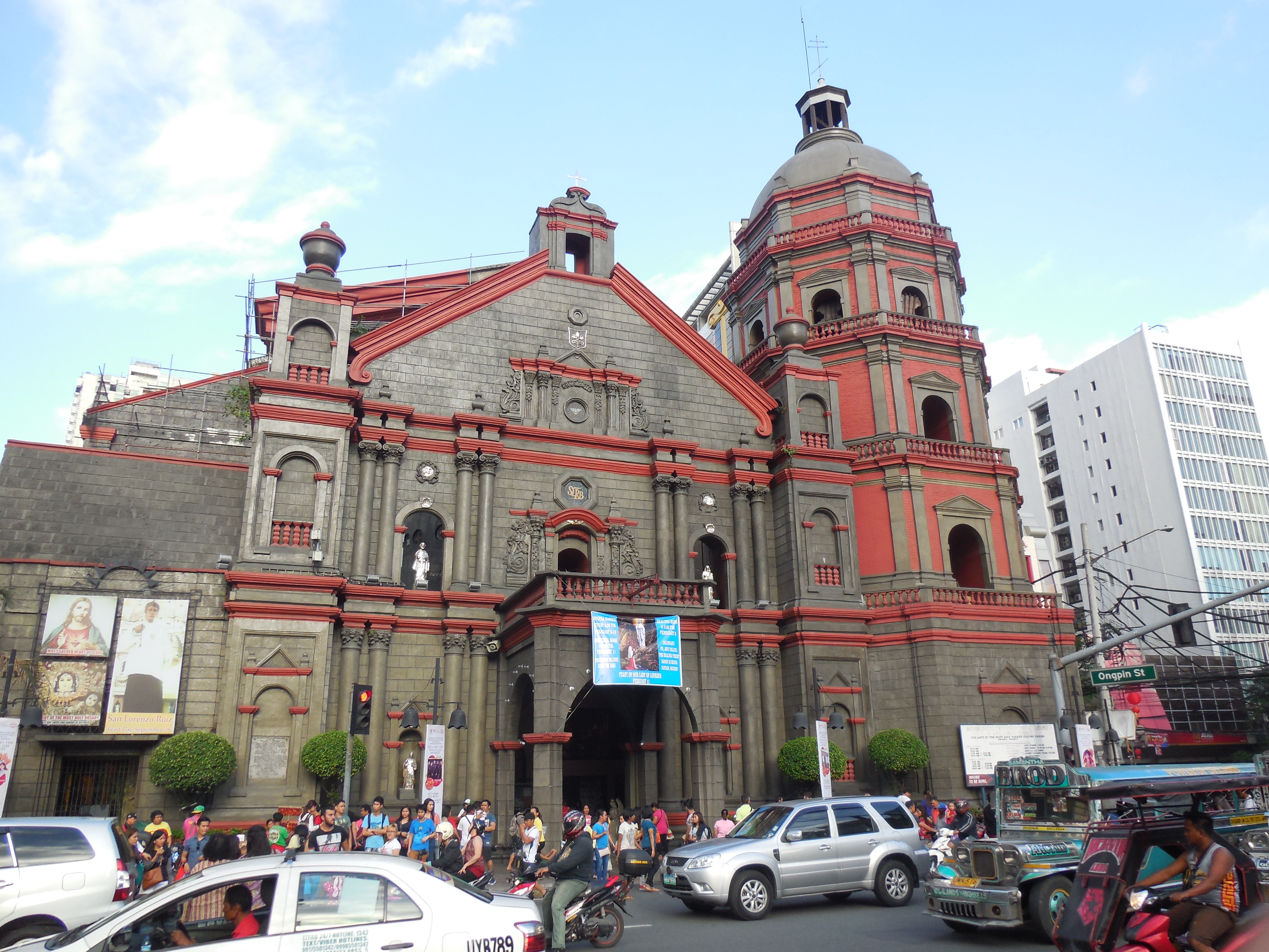 The facade of the Minor Basilica of Saint Lorenzo Ruiz also known as Binondo Church located in Binondo, Manila.